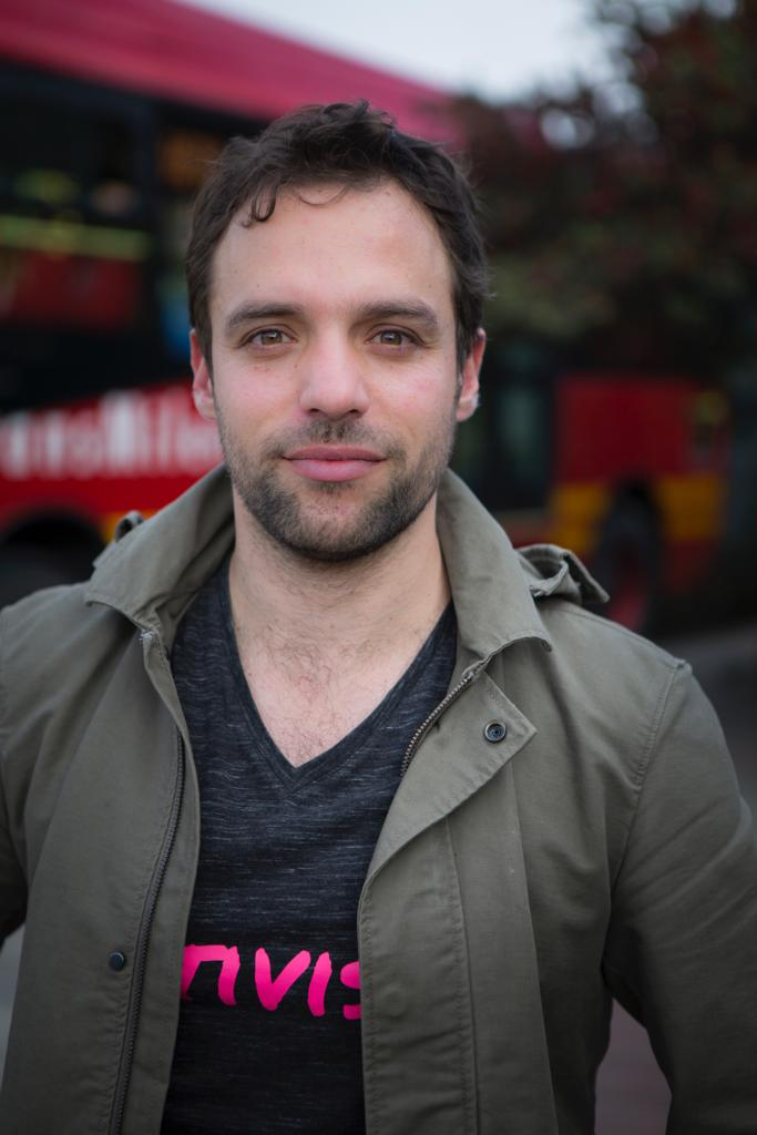 Luis Ernesto Gómez Londoño